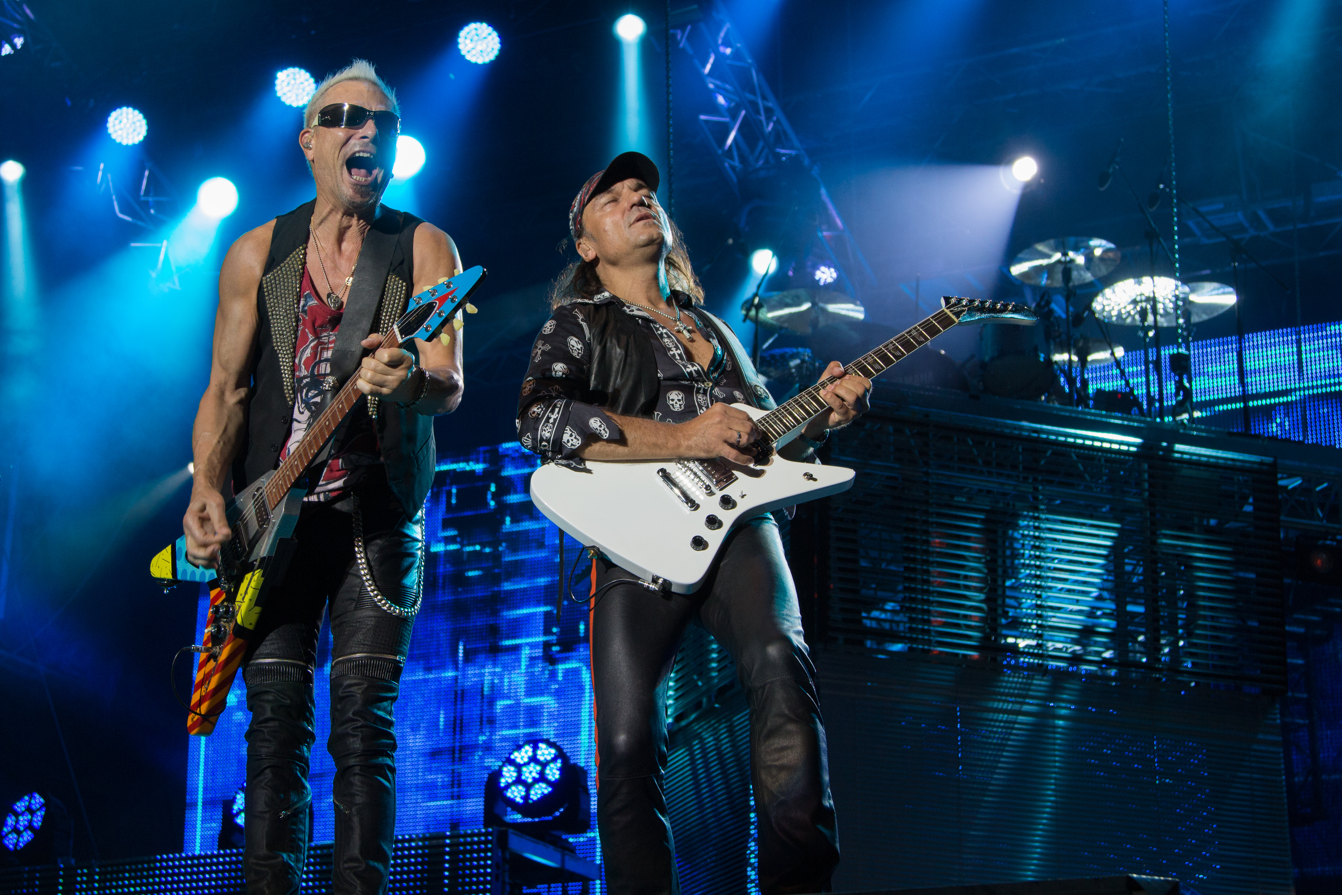 Matthias Jabs and Rudolf Schenker from the Scorpions at the See-Rock Festival 2014